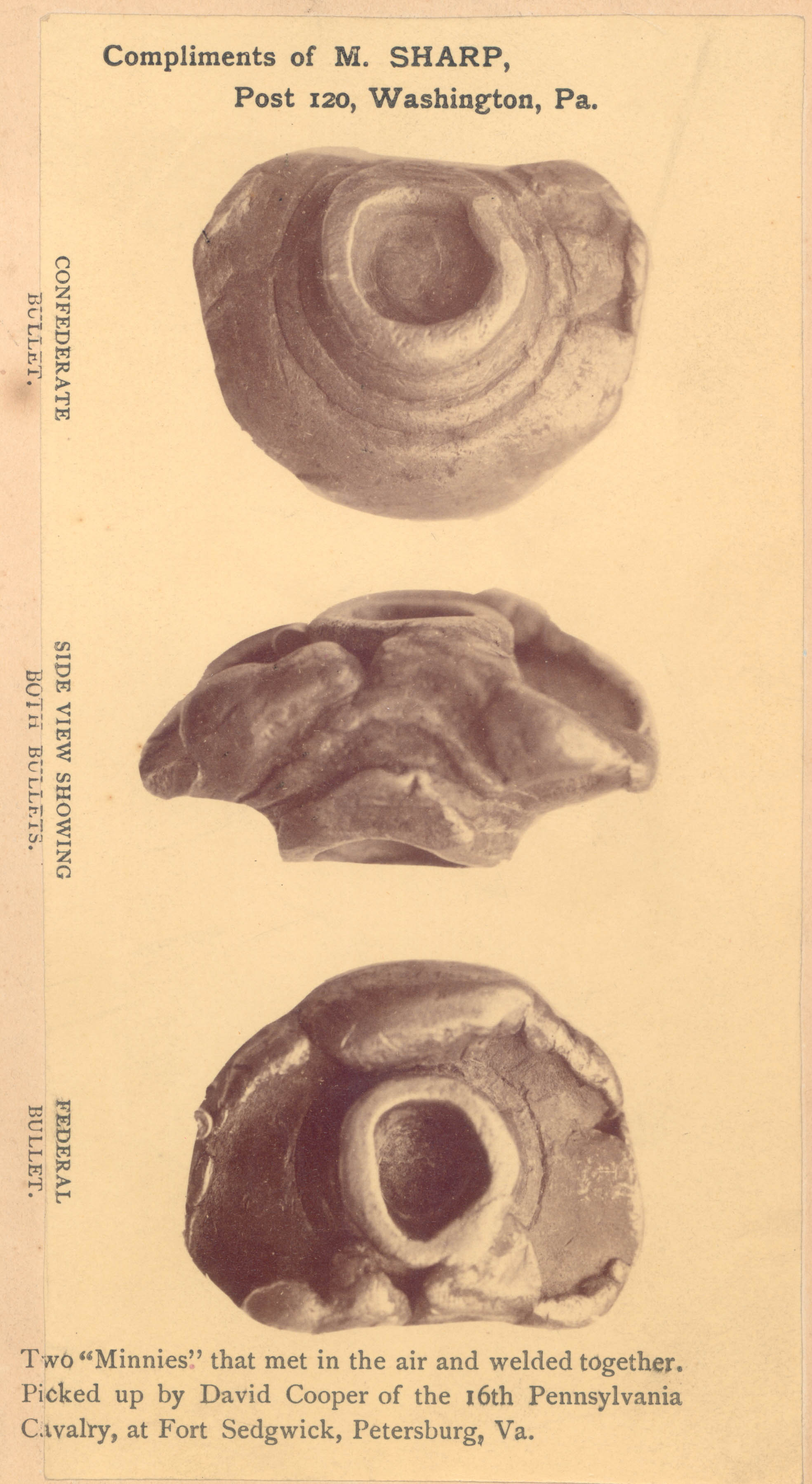 TWO 'MINNIES' THAT MET IN THE AIR AND WELDED TOGETHER. Picked up by David Cooper of the 16th Pennsylvania Cavalry, at Fort Sedwick, Petersburg, VA. Compliments of M. Sharp, Post 120, Washington, Pa.